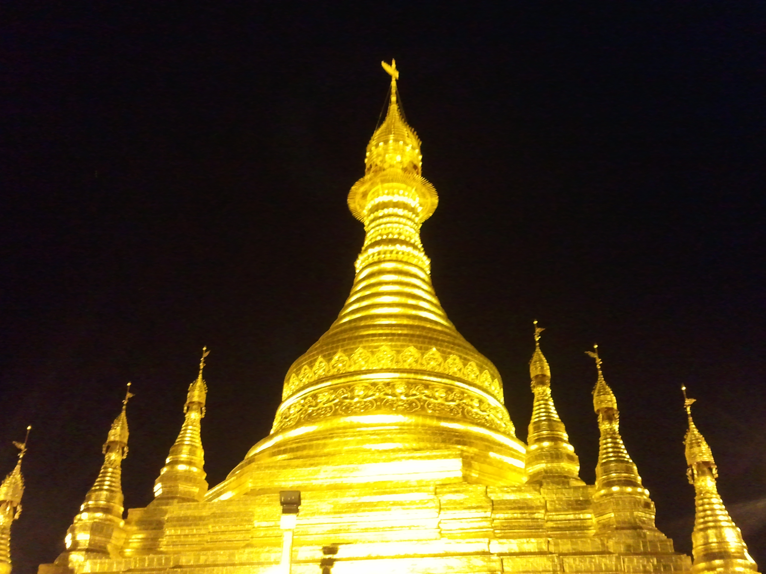 Myathalon Pagoda, Magwayမြန်မာဘာသာ: မကွေး မြသလွန်ဘုရား